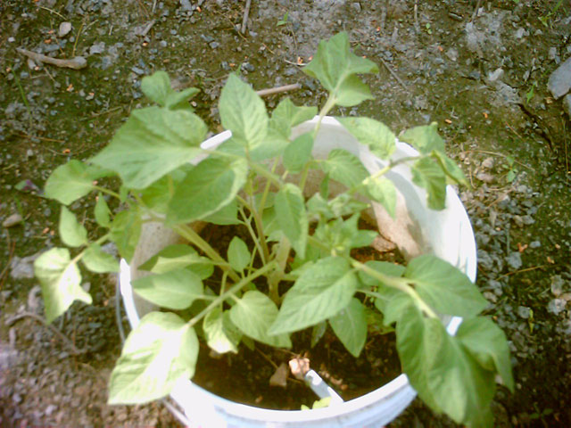 Brandywine tomato plant, illustrates the smooth potato leaves.